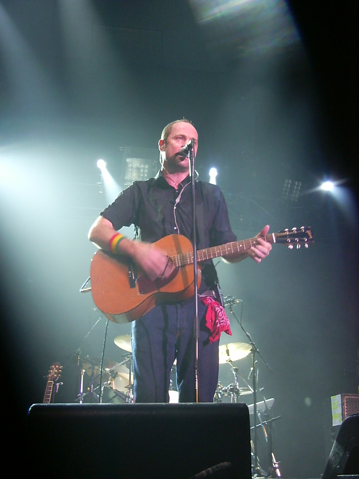 The Hip 03